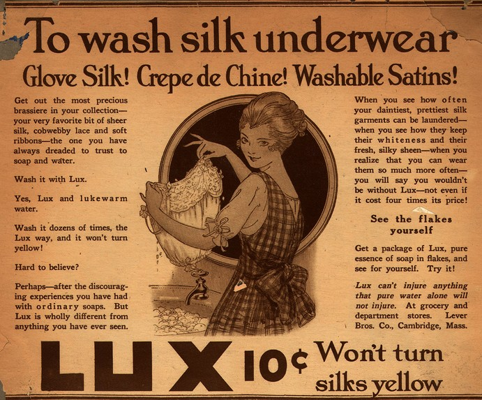 Advertisement from 1916 promoting Lux Laundry soap.